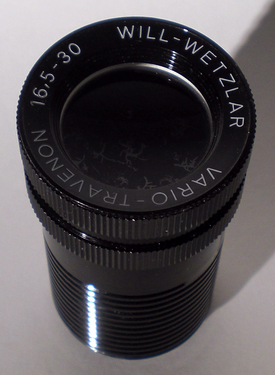 Projection objective for Super 8 movie projector by German optics company Wilhelm Will, Wetzlar. The focal length is variable from 16.5 to 30 mm. No aperture is given (1:1.3?). The barrel is plastic.